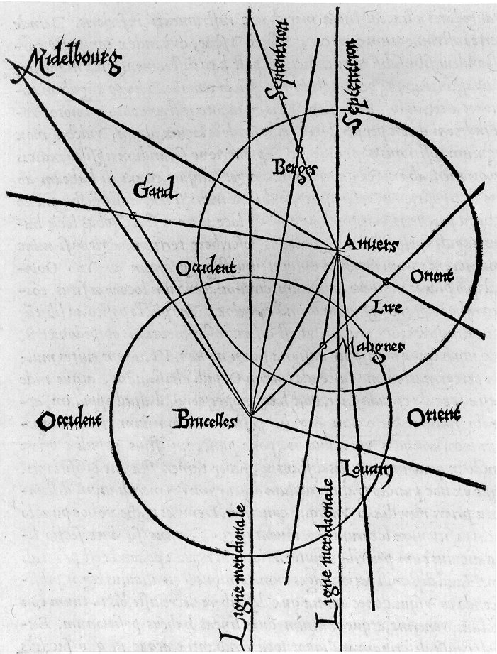 Triangulation by Gemma Frisius. (Taken from: G. Frisius, Libellus de locorum describendorum ratione, Antwerpen 1553)